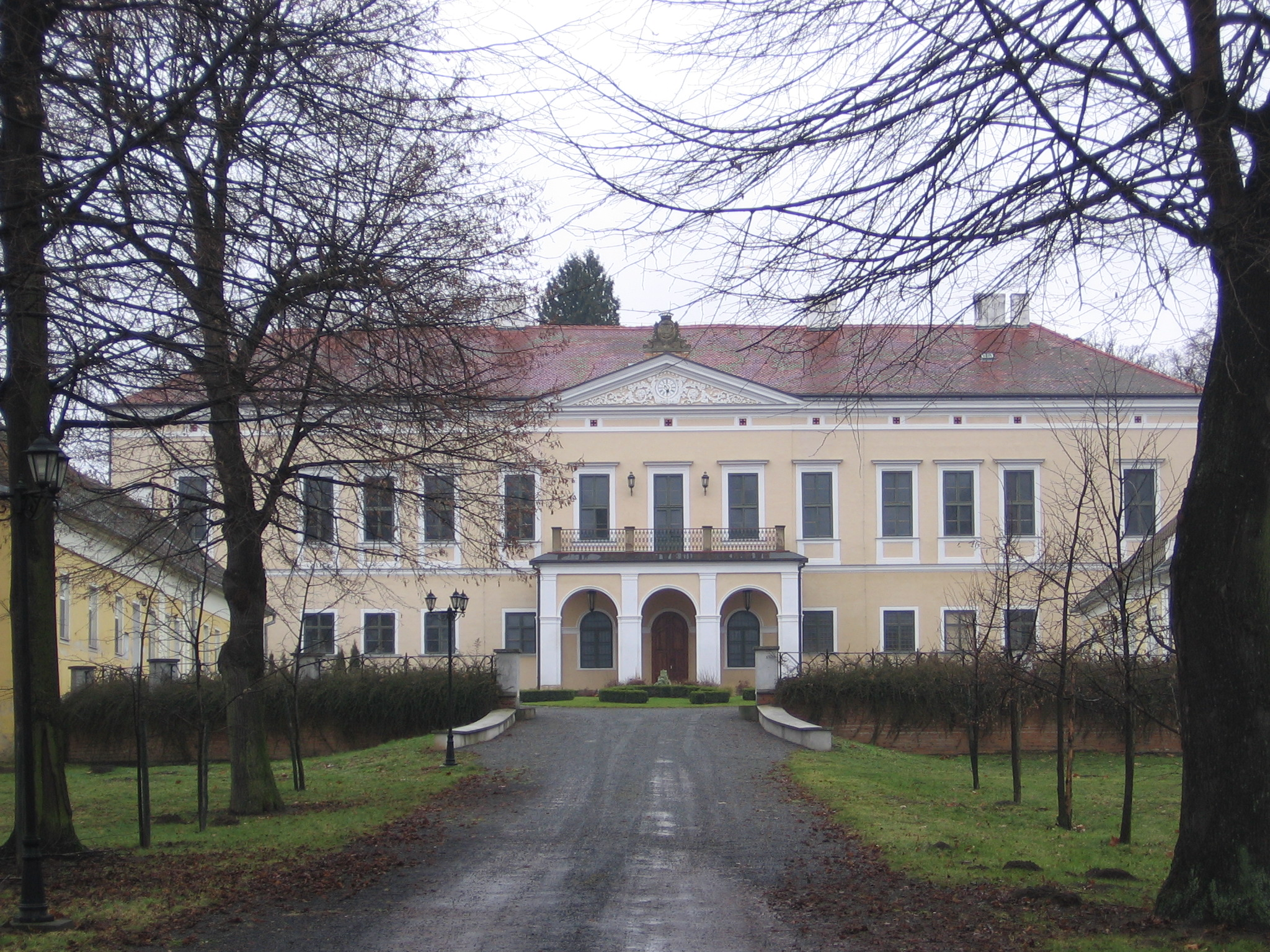 Castle in Brodek u Prostějova - detail view (Olomouc Region, Czech Republic)